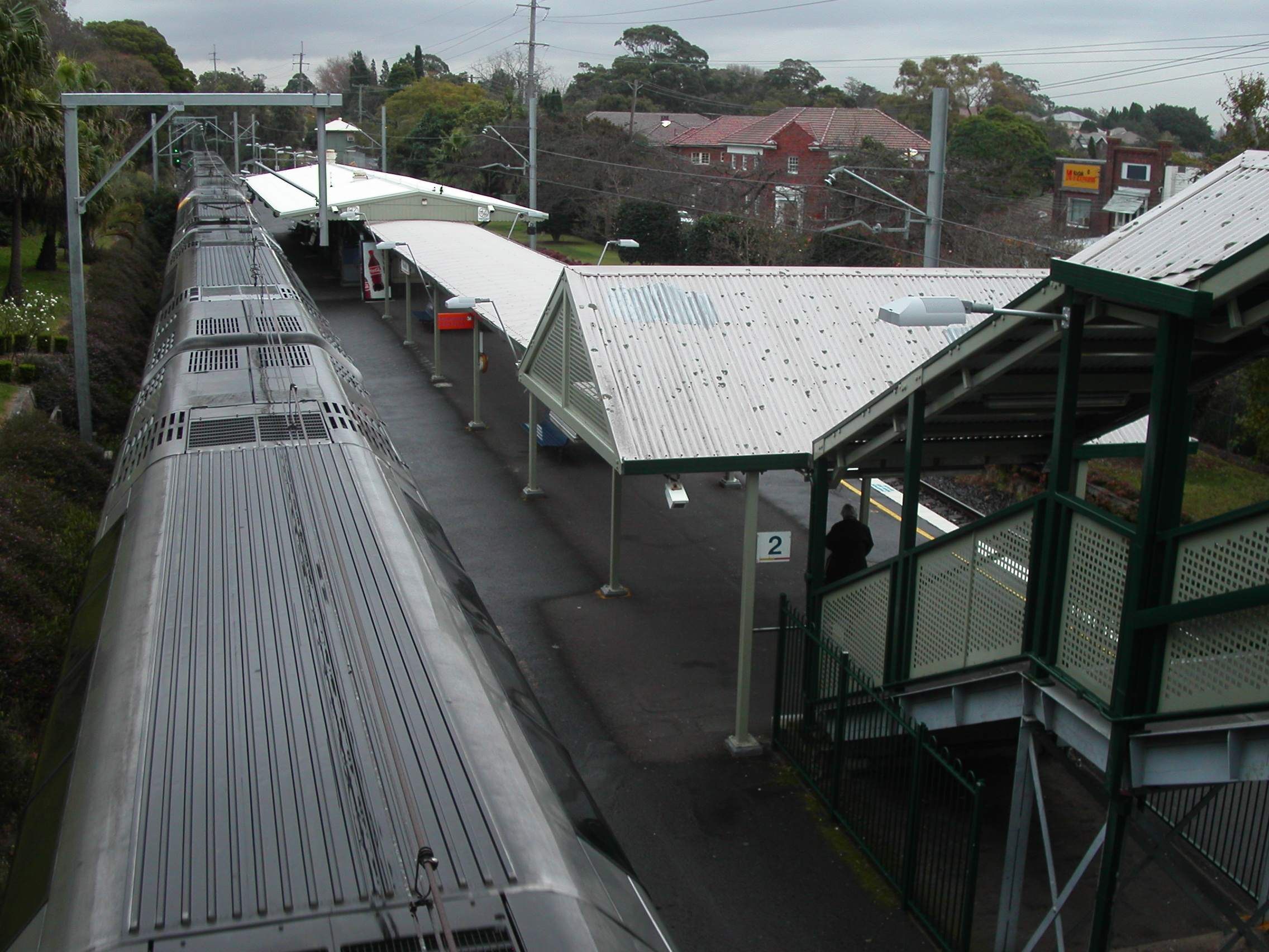 Roseville Station. Uploaded by Hohohob on behalf of Rendezvous Studio.